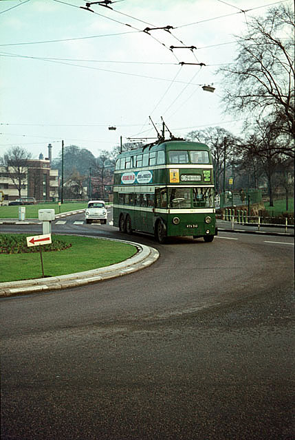 British Trolleybuses - Nottingham